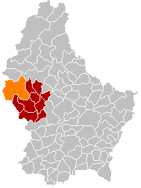 Own edit of Kanton RedangeLocatie.png